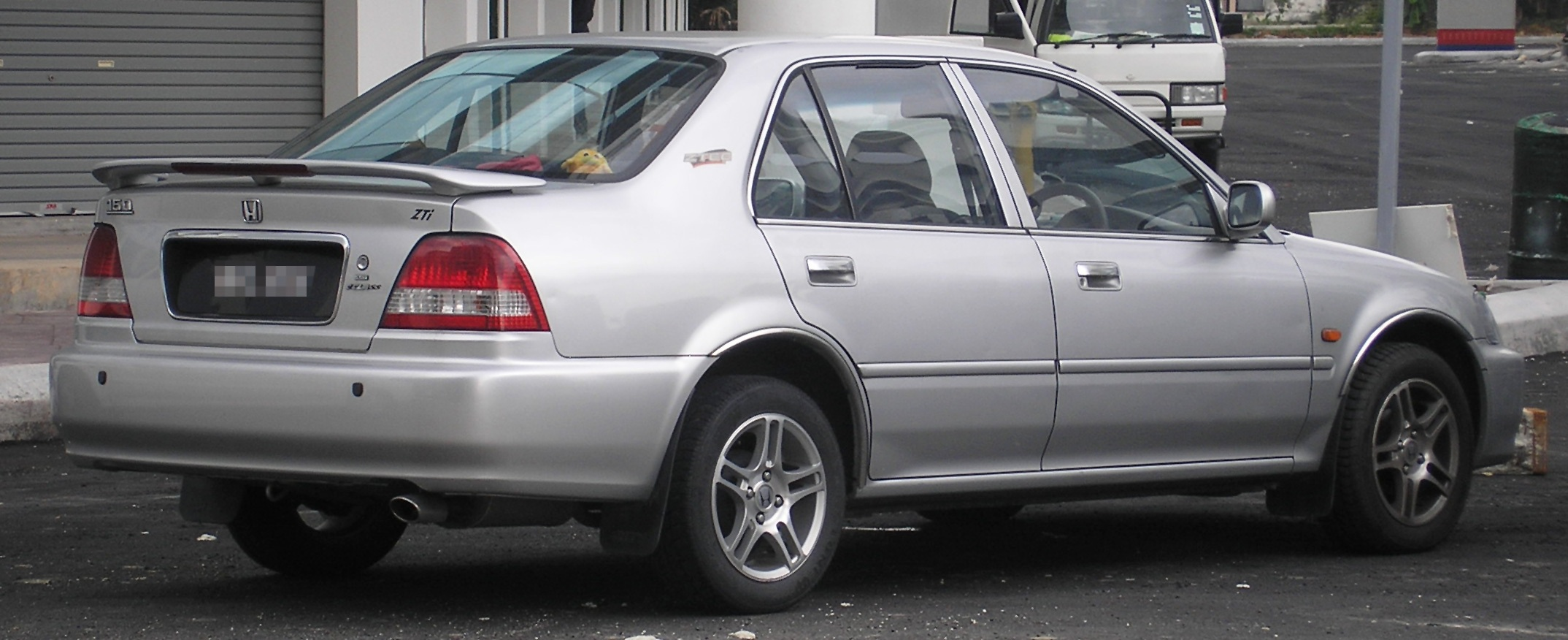 Rear quarter view of a third generation, first facelift Honda City, in Serdang, Selangor, Malaysia.